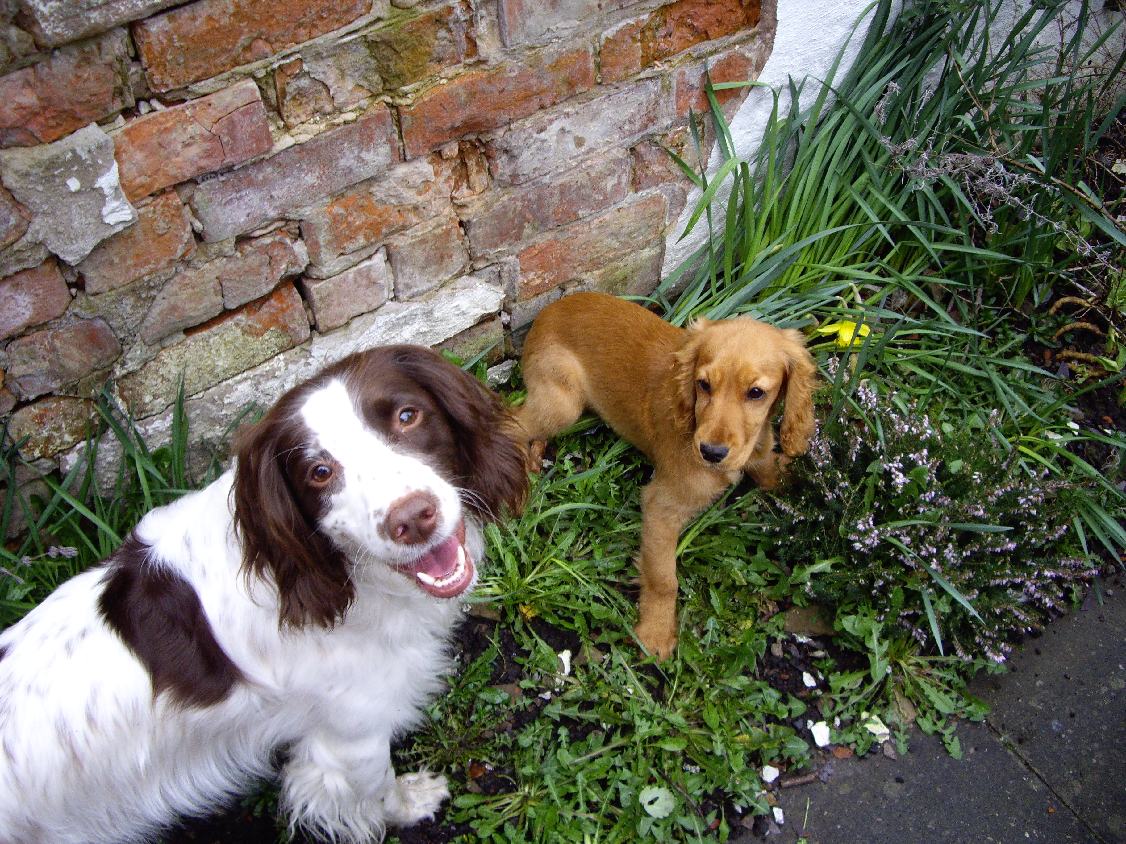 A brown and white Springer Spaniel with a golden Cocker Spaniel.